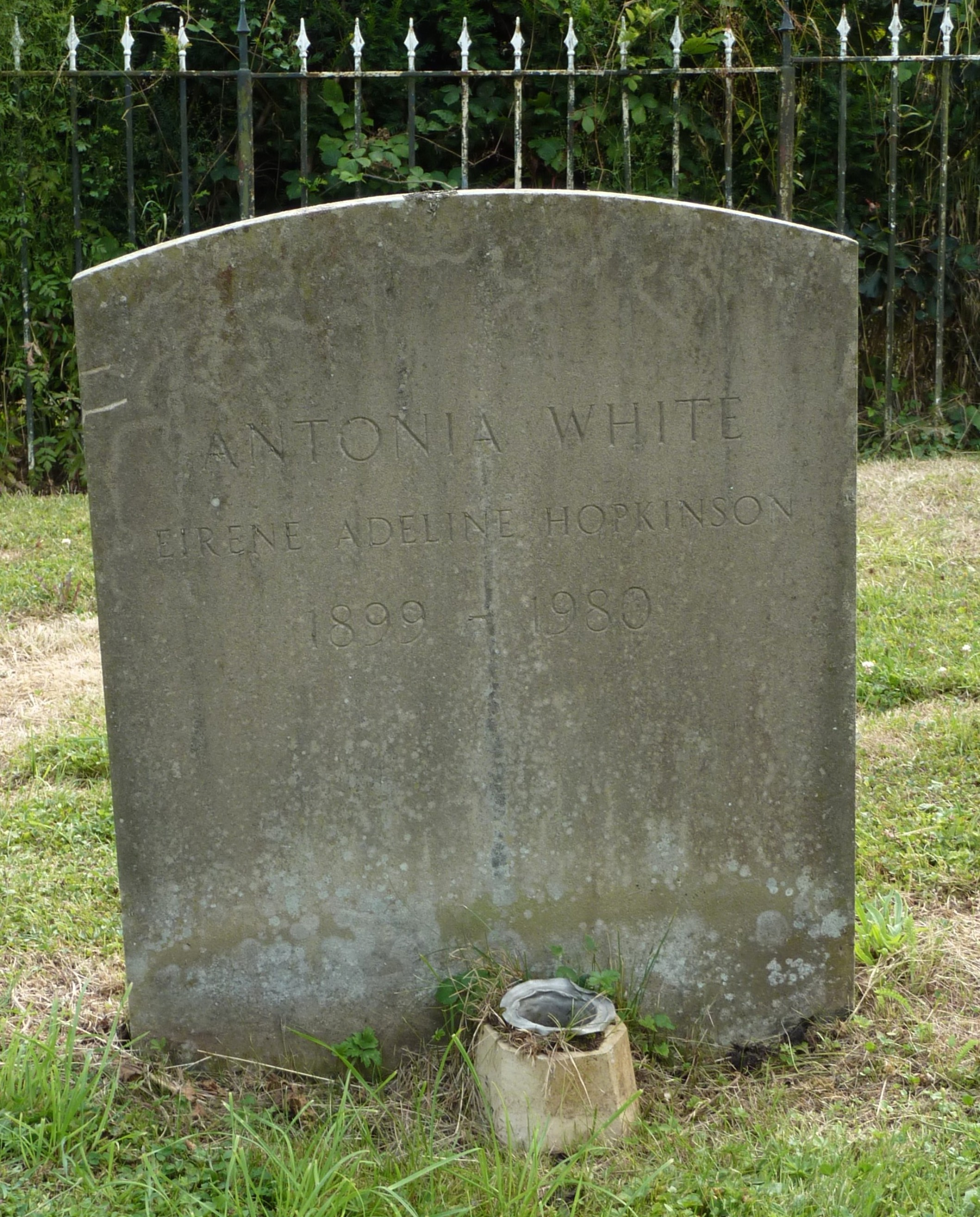 The grave of English writer Antonia White at the Shrine of Our Lady of Consolation in West Grinstead, UK.